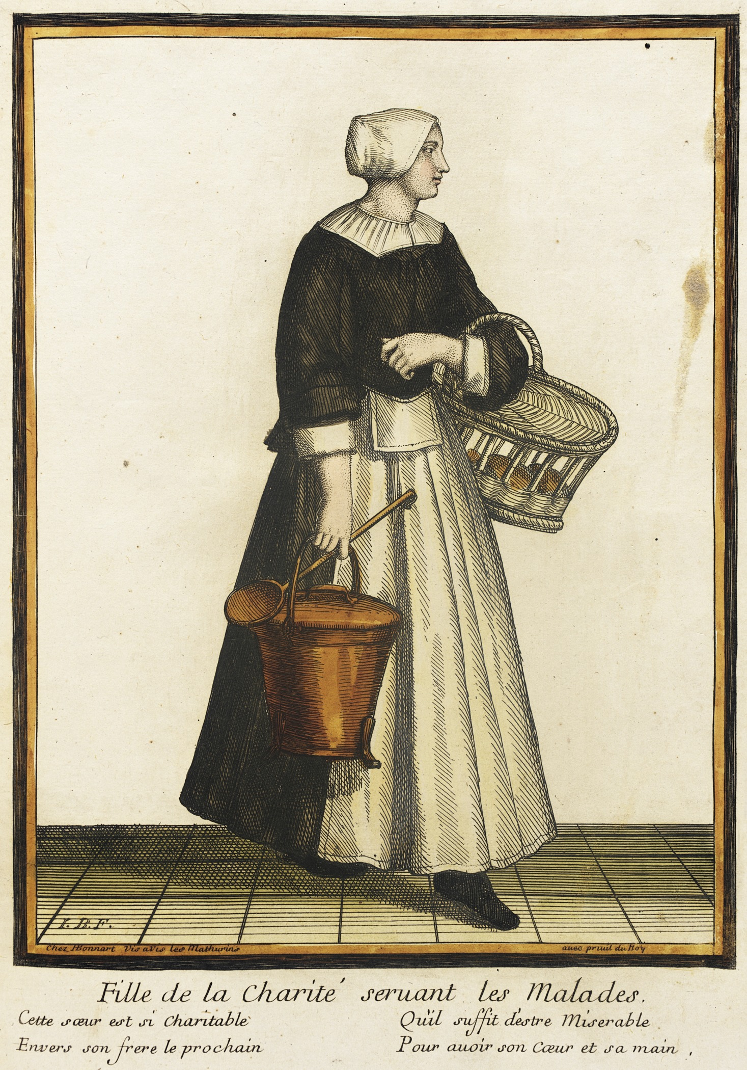 France, Paris, 1675-1685, bound 1703-1704 Prints Hand-colored engraving on paper Sheet: 14 3/8 x 9 1/2 in. (36.51 x 24.13 cm); Composition: 10 3/4 x 7 5/8 in. (27.31 x 19.37 cm) Purchased with funds provided by The Eli and Edythe L. Broad Foundation, Mr. and Mrs. H. Tony Oppenheimer, Mr. and Mrs. Reed Oppenheimer, Hal Oppenheimer, Alice and Nahum Lainer, Mr. and Mrs. Gerald Oppenheimer, Ricki and Marvin Ring, Mr. and Mrs. David Sydorick, the Costume Council Fund, and member of the Costume Council (M.2002.57.190) Costume and Textiles